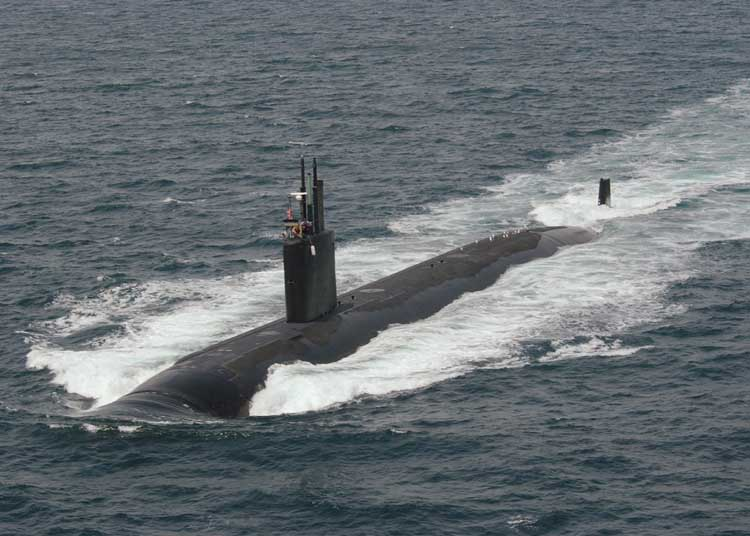 USS Asheville (SSN-758) Source